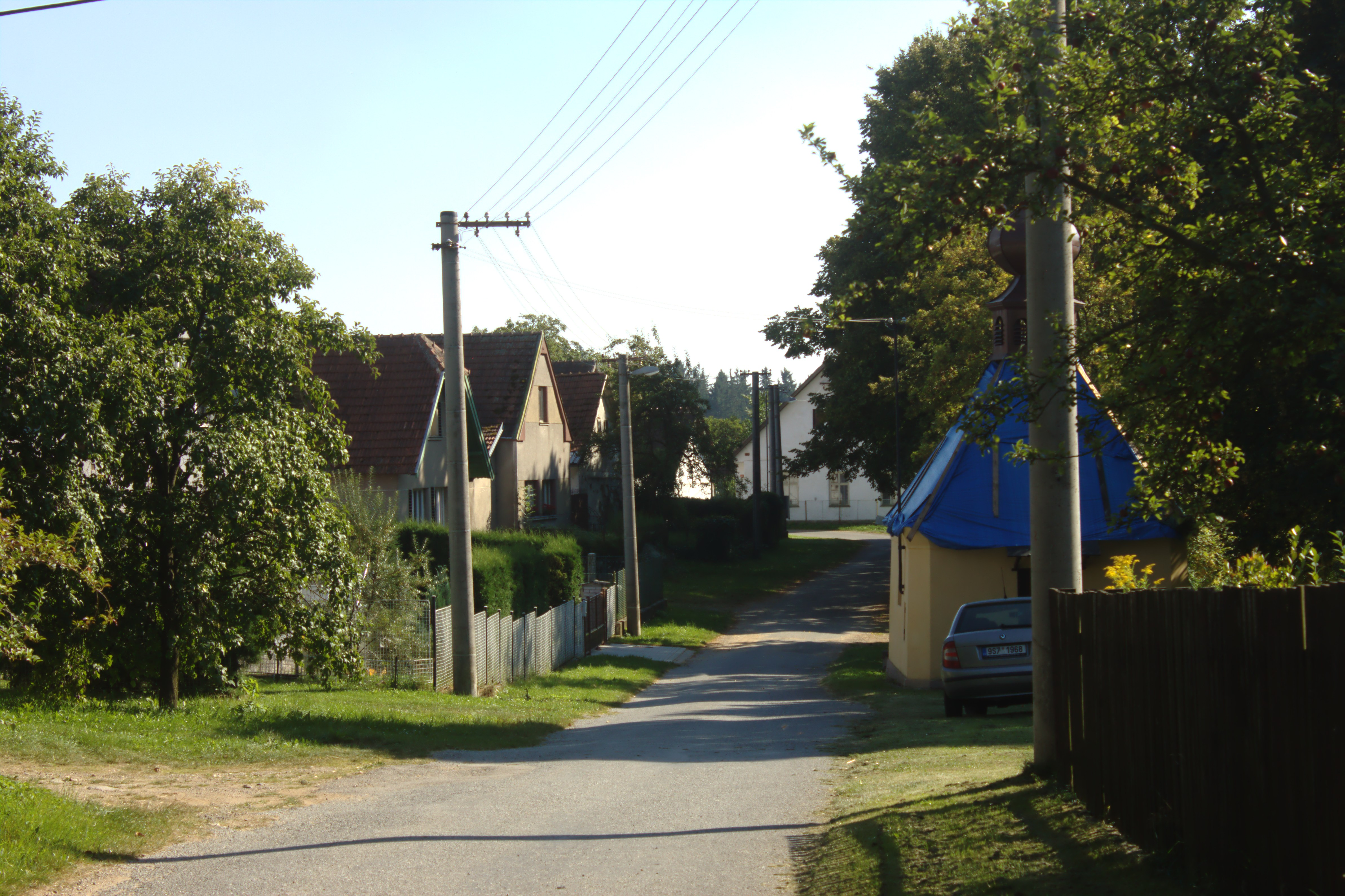 Main road in the village of Zdiměřice, Central Bohemia, CZ